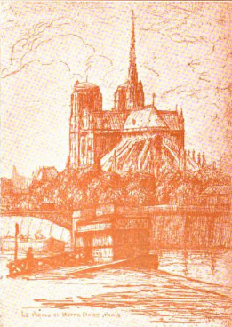 "The Bridge and Notre Dame", by Caroline Helena Armington (1875–1939); born in Canada; pupil of the Julian Academy in Paris; member of the Chicago Society of Etchers and the California Society of Etchers; from a 1921 publication.